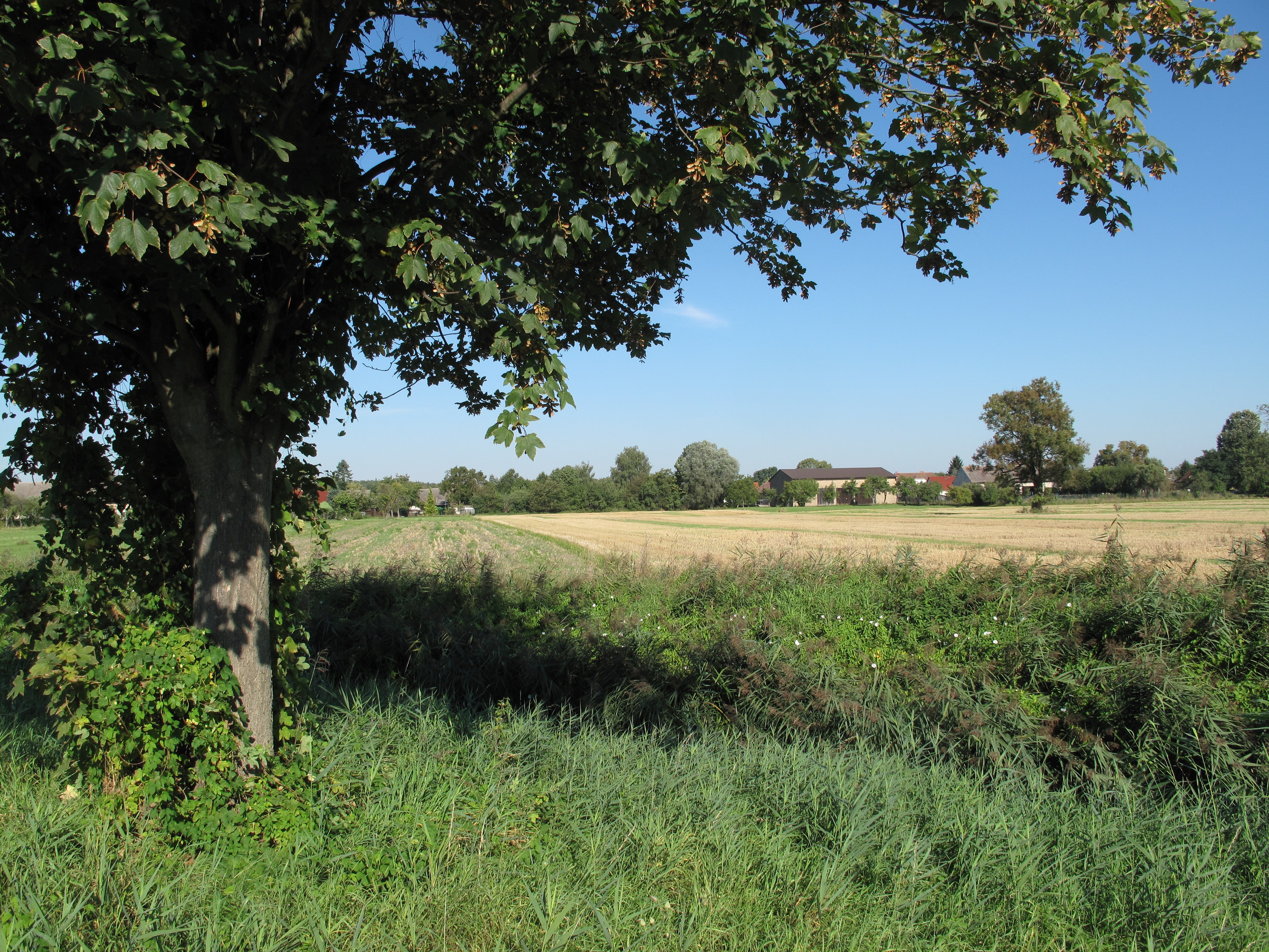 Rieploser Fließ in Rieplos. The 3,88 kilometres long stream connects the Lebbiner See with the Stahnsdorfer See (lakes). The village Rieplos is a part of the town Storkow, District Oder-Spree, Brandenburg, Germany. The village and the stream are situated in the Dahme-Heideseen Nature Park.